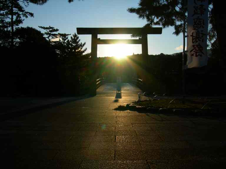 Sunrise at the Uji-bashi, the bridge in front of Kotaijingū(Naikū), Ise city, Mie Prefecture, Japan.